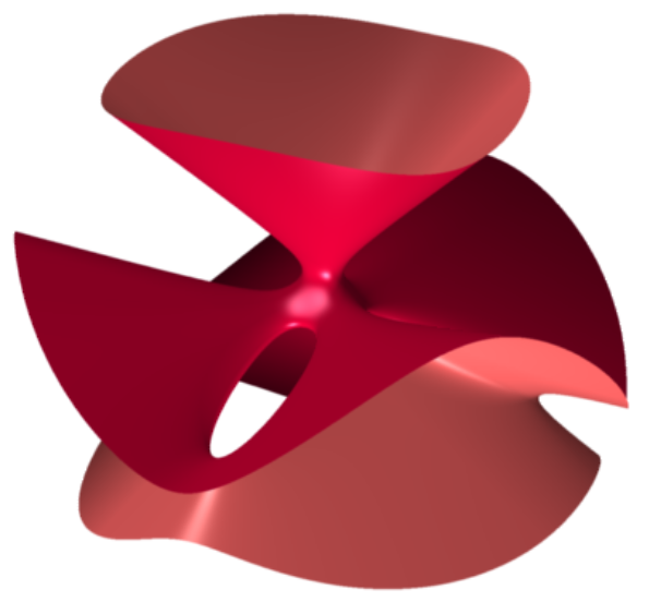 An image of the Clebsch cubic. Created using "Surfer"